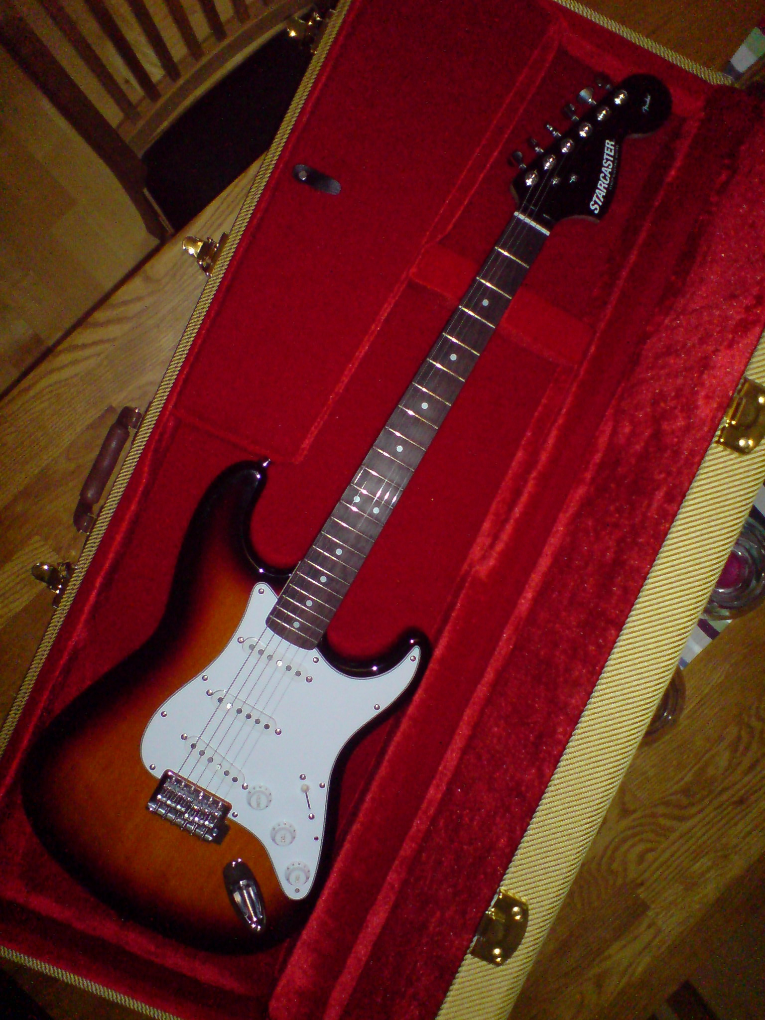 Starcaster by Fender Strat guitar